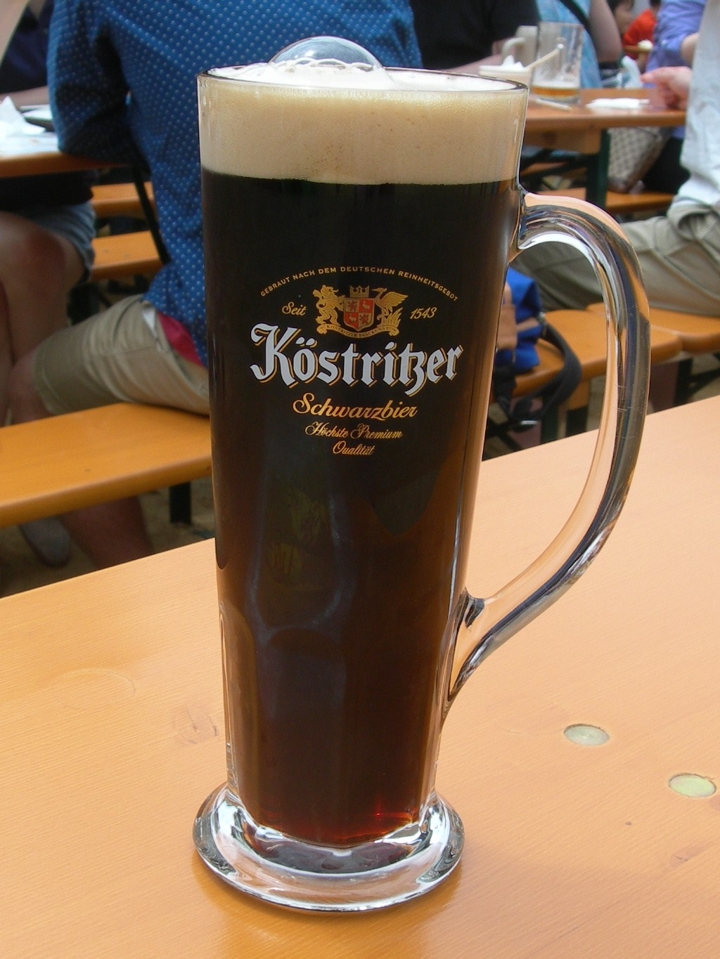 Köstritzer Schwarzbier. I've had in Kobe.